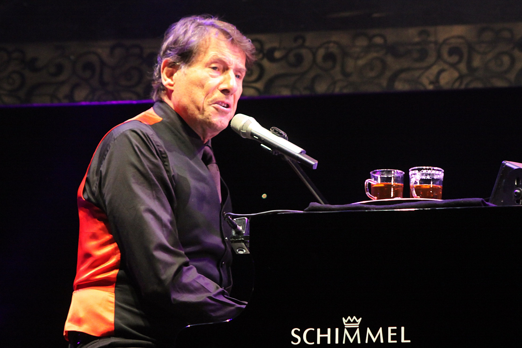 Udo Jürgens in concert at “Der Soloabend 2010” in Sankt Margarethen im Burgenland (Austria)